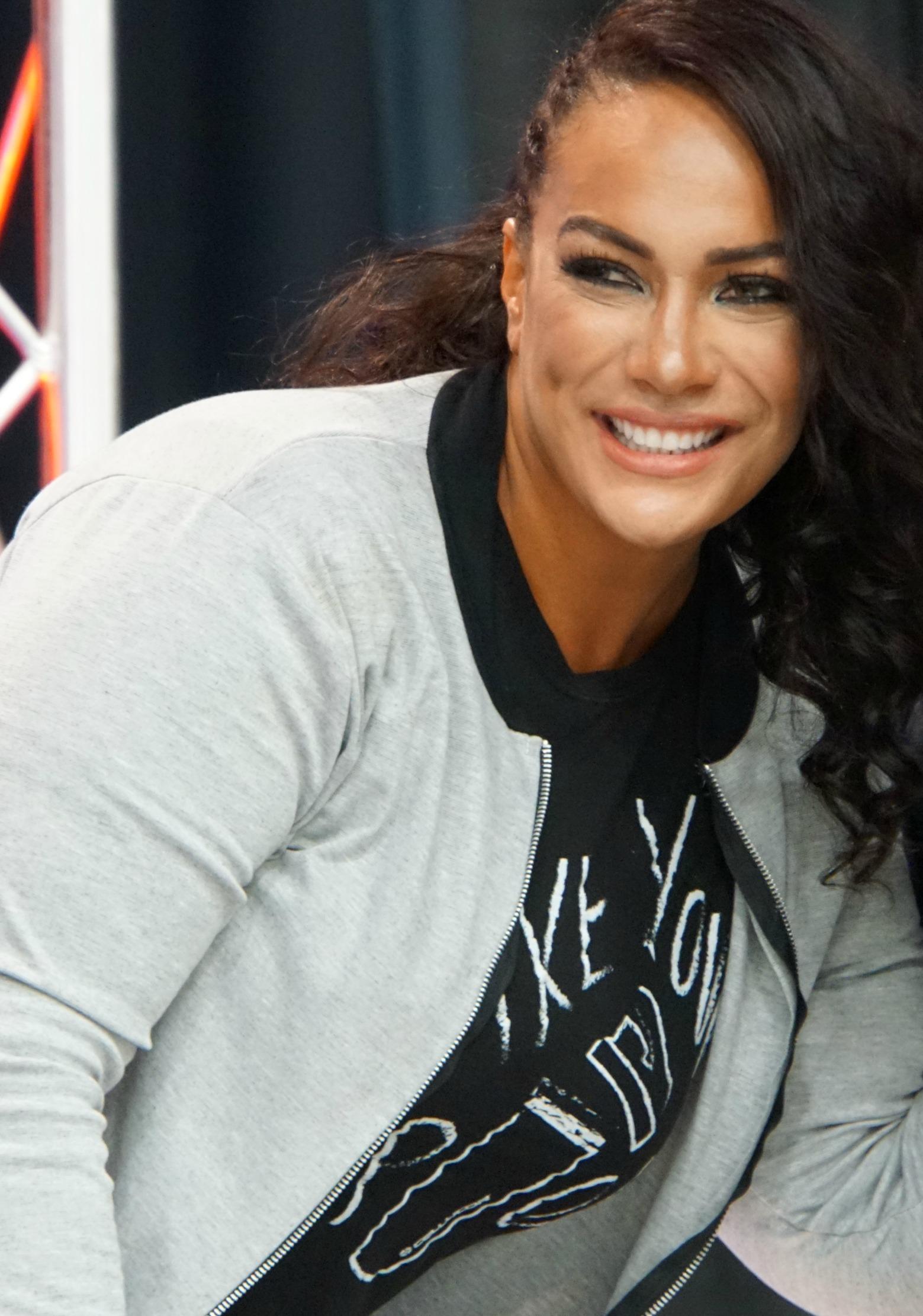 Nia Jax during the WrestleMania 32 Axxess in April 1, 2016.